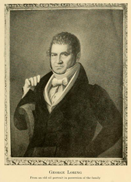 Oil portrait of merchant George Loring